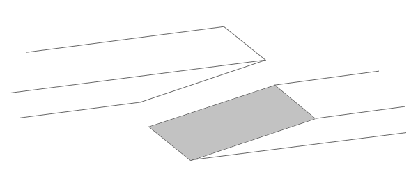 Diagram of a Scarf Joint